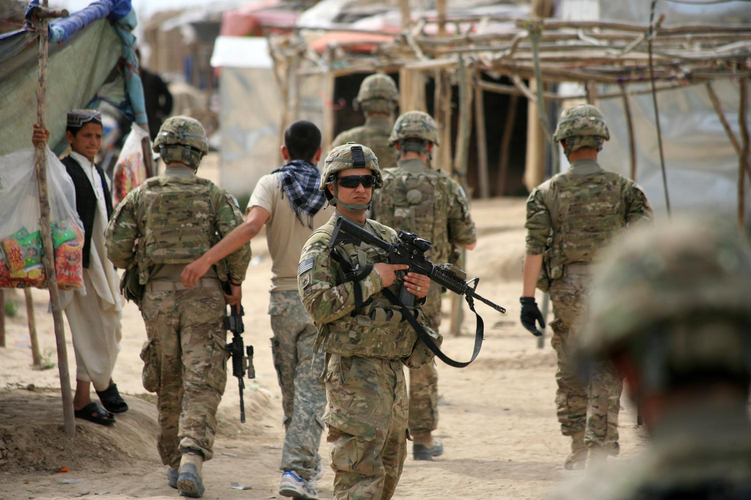 As a dismounted patrol of U.S. soldiers from A Battery, 1st Battalion, 84th Field Artillery Regiment, 170th Infantry Brigade Combat Team walks through the village of Chil Gazy; Staff Sgt. Jordan Cruz provides security. Afghans in the village voiced their opinions to International Security Assistance Forces troops during their visit in an effort to improve the security situation in the village and throughout the area.